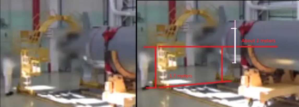 Size of Status-6 based on Russian DoD video